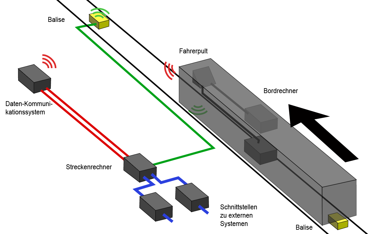 CBTC principles